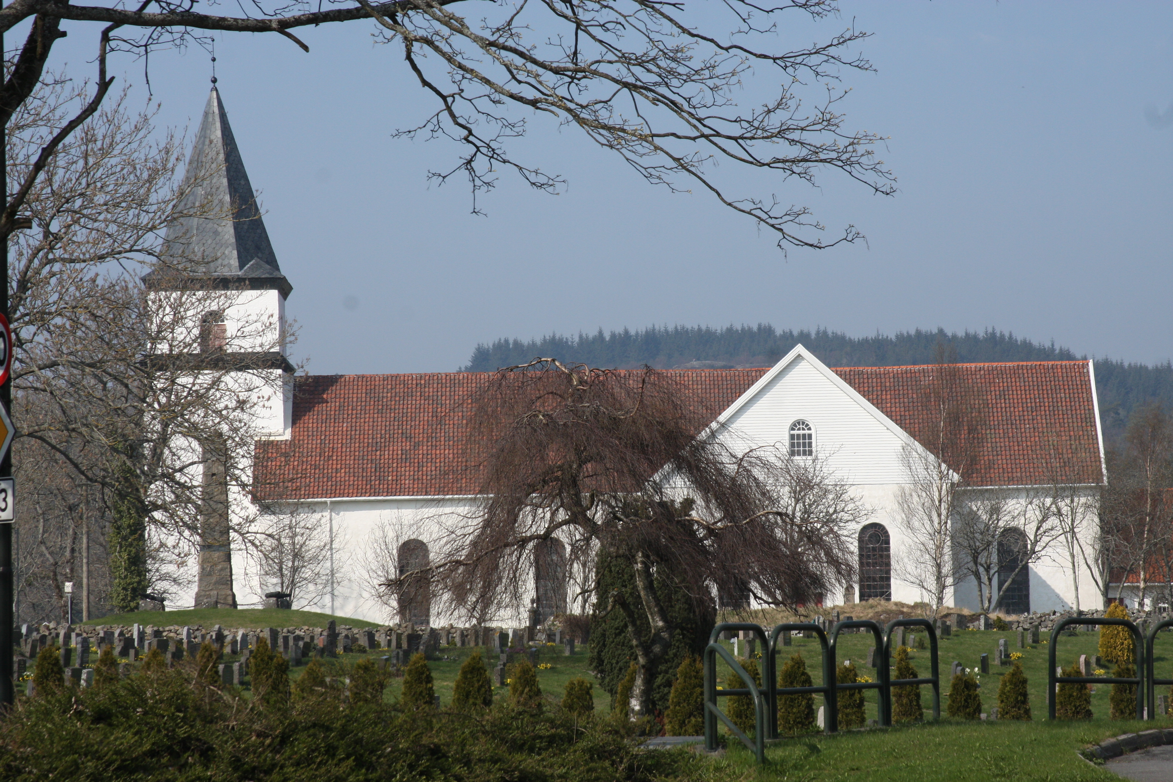 Vanse church, in Farsund municipality, Vest-Agder (Norway)